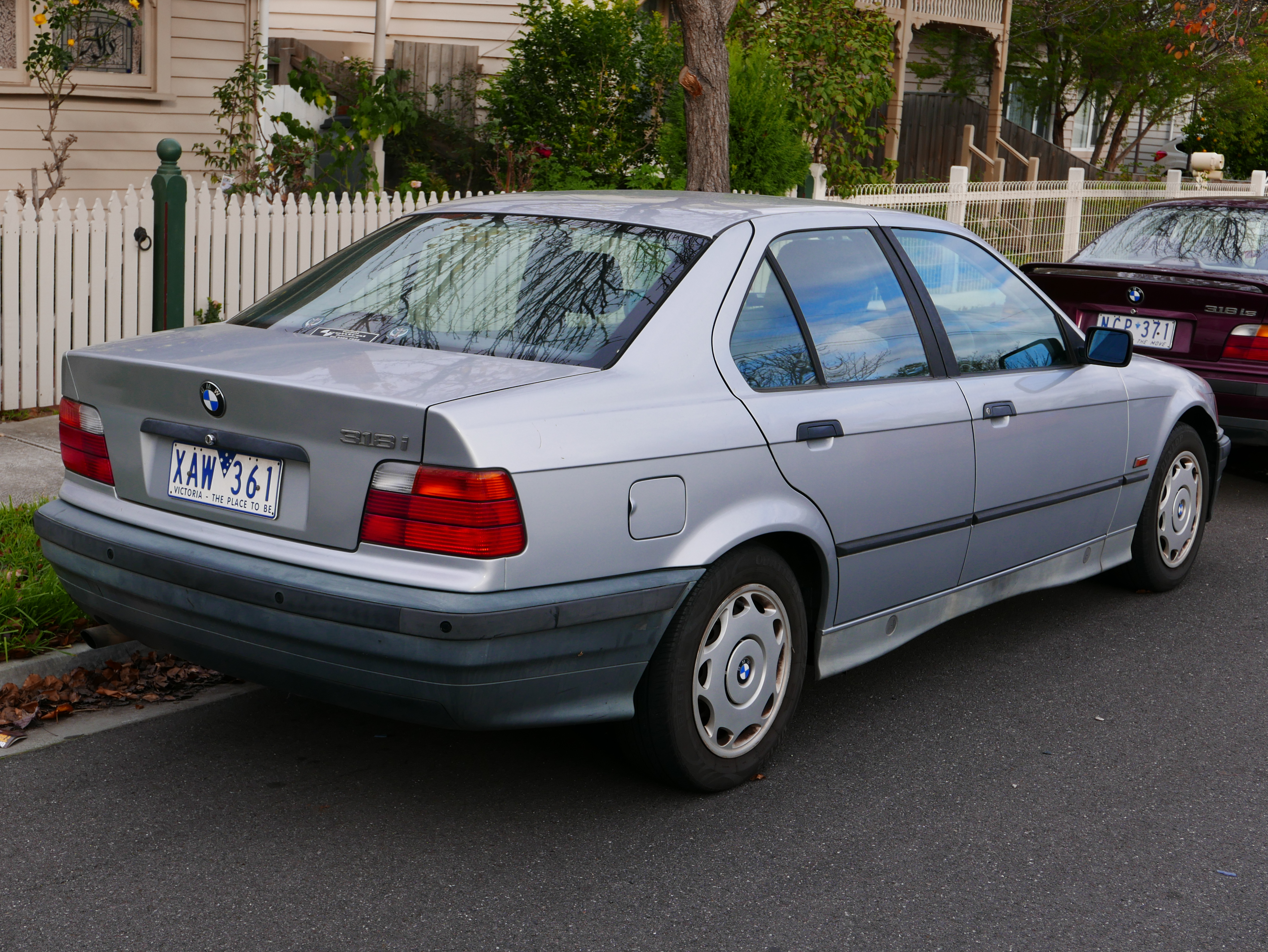 1994 BMW 318i (E36) sedan. Photographed in Northcote, Victoria, Australia. Vehicle registration enquiry results Jurisdiction Victoria Registration XAW361 Chassis code WBACA02050AD64920 Engine code 09048016 Compliance date 1994-01 Year of manufacture 1994